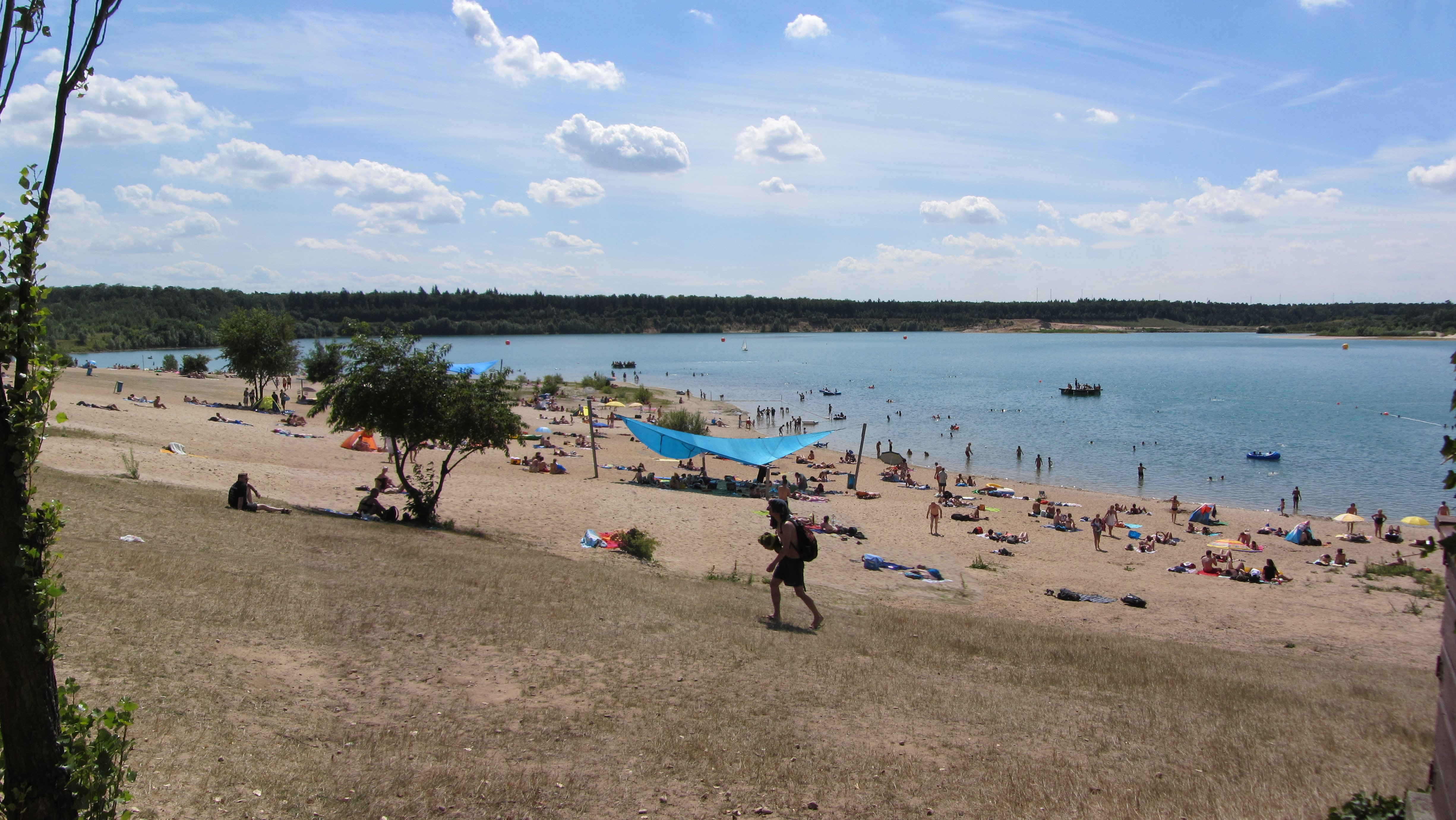 Langener Waldsee, the biggest lake in the local area of Frankfurt/Main